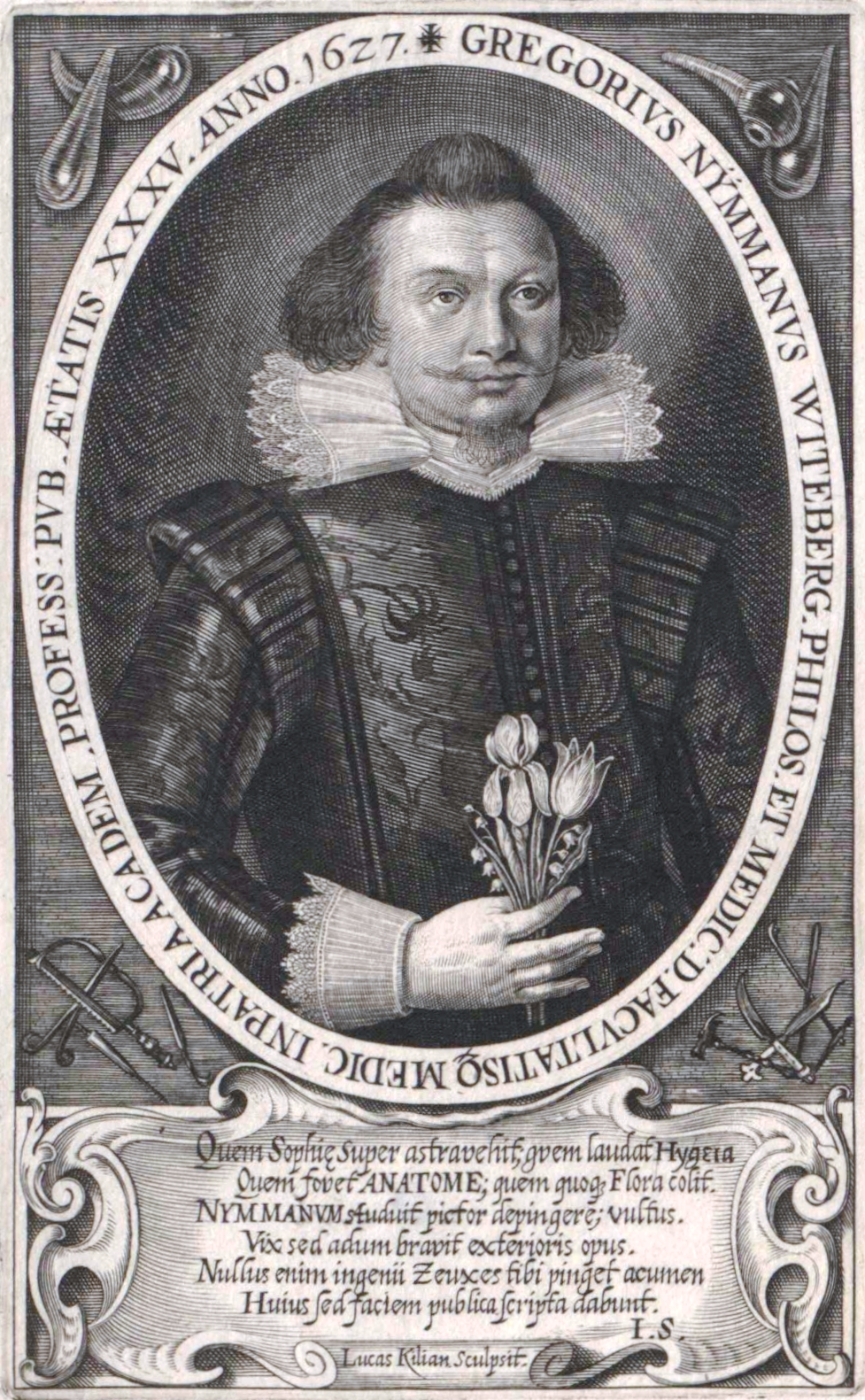 Georg Nymmann, (1592-1638), German Physician.